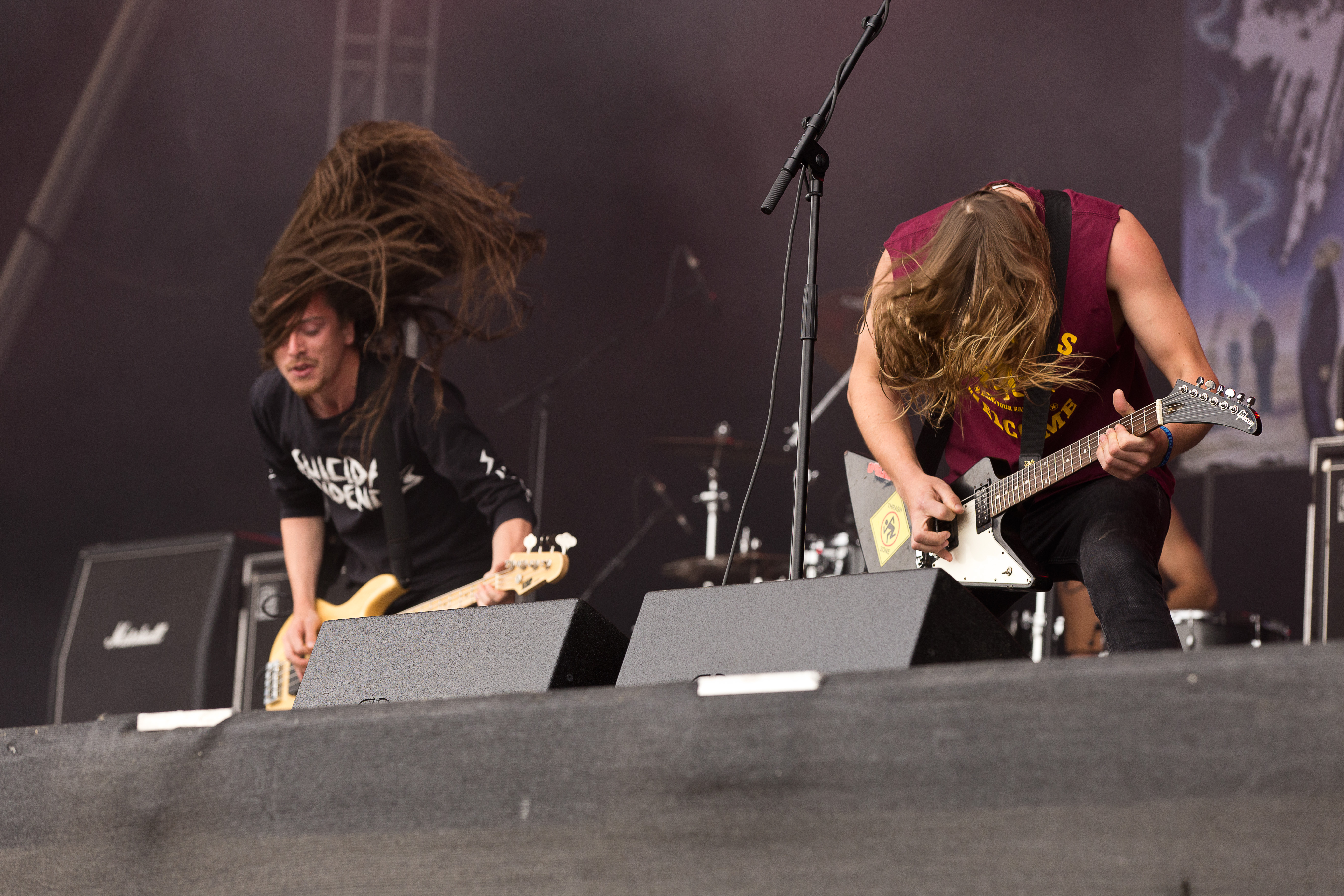 The German thrash metal band Dust Bolt at the Rockharz Open Air 2016 in Ballenstedt/Germany.